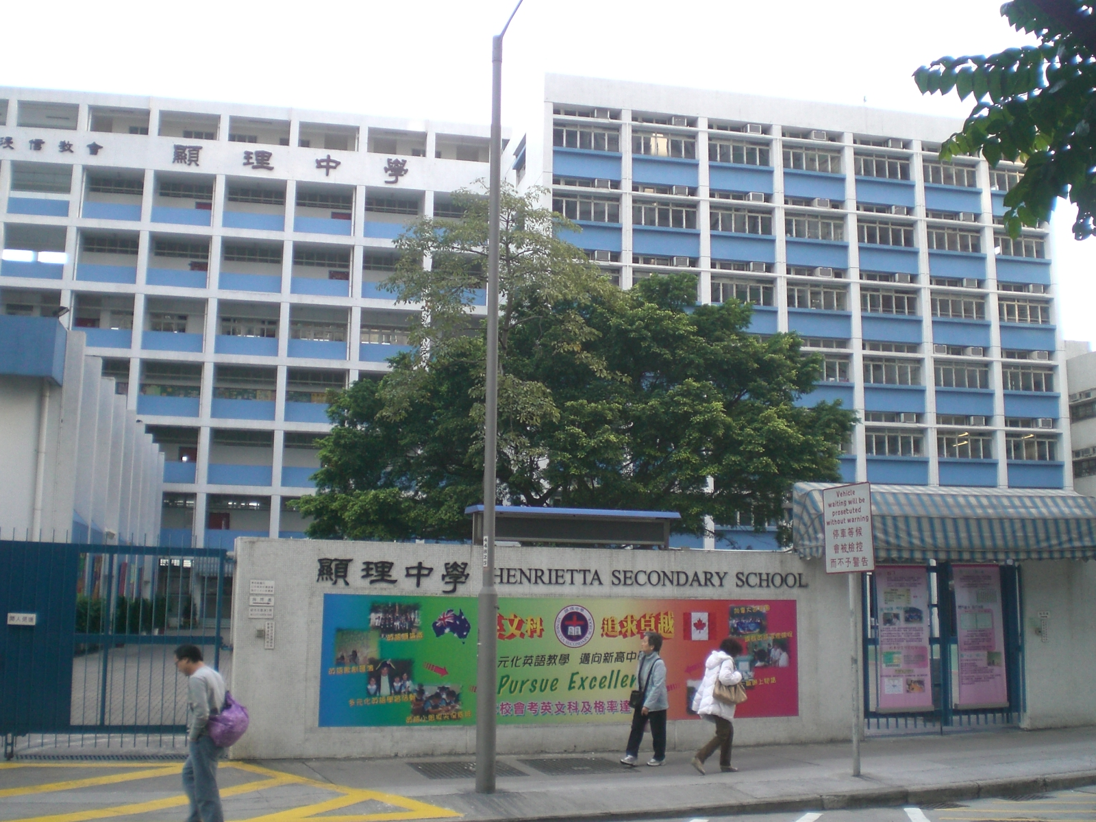 北角 顯理中學, 城市花園道